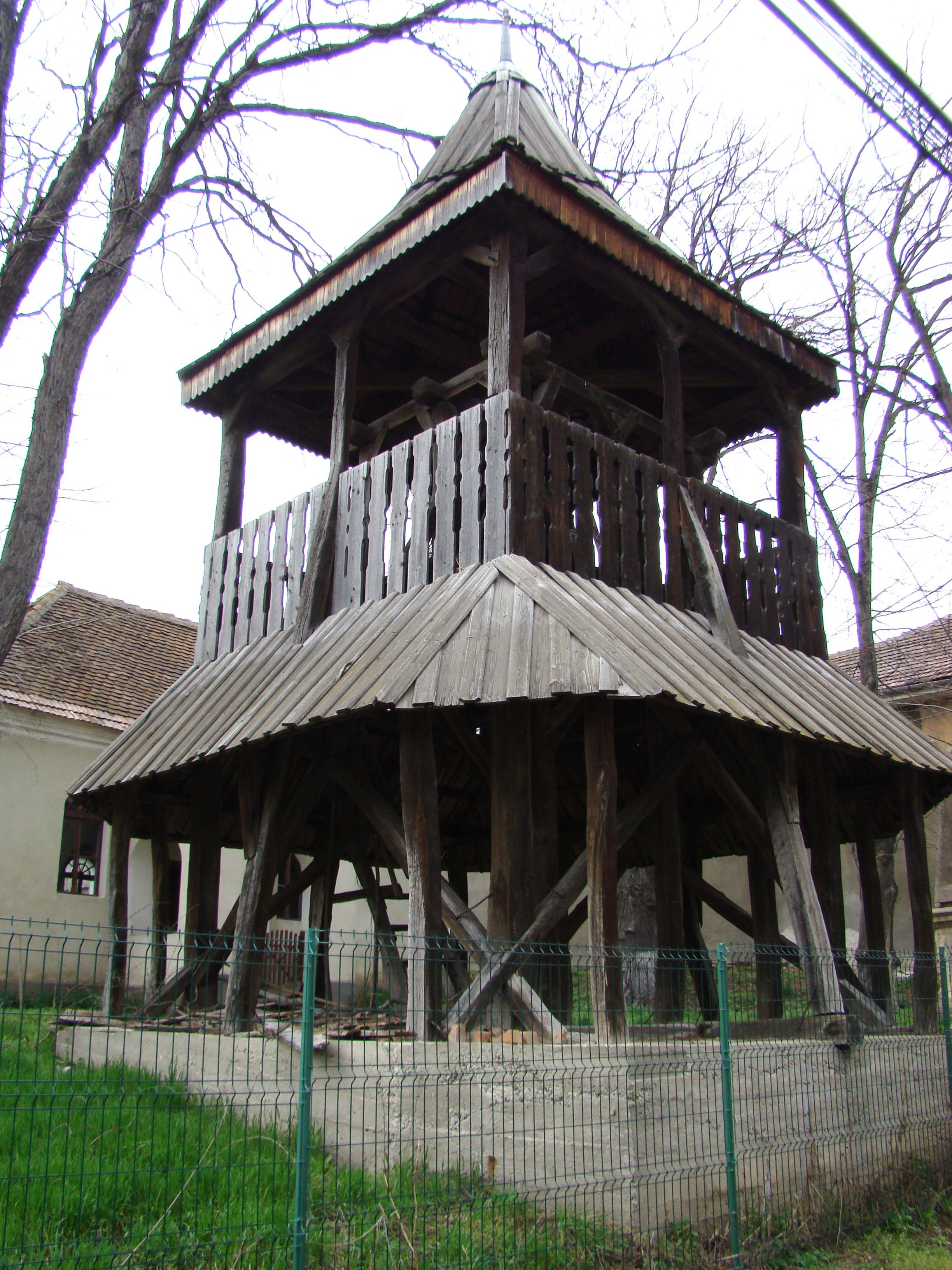 Protestant church in Valea Lungă, Alba county, Romania